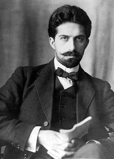 Caleb Saleeby (1878-1940), English physician, eugenicist and journalist